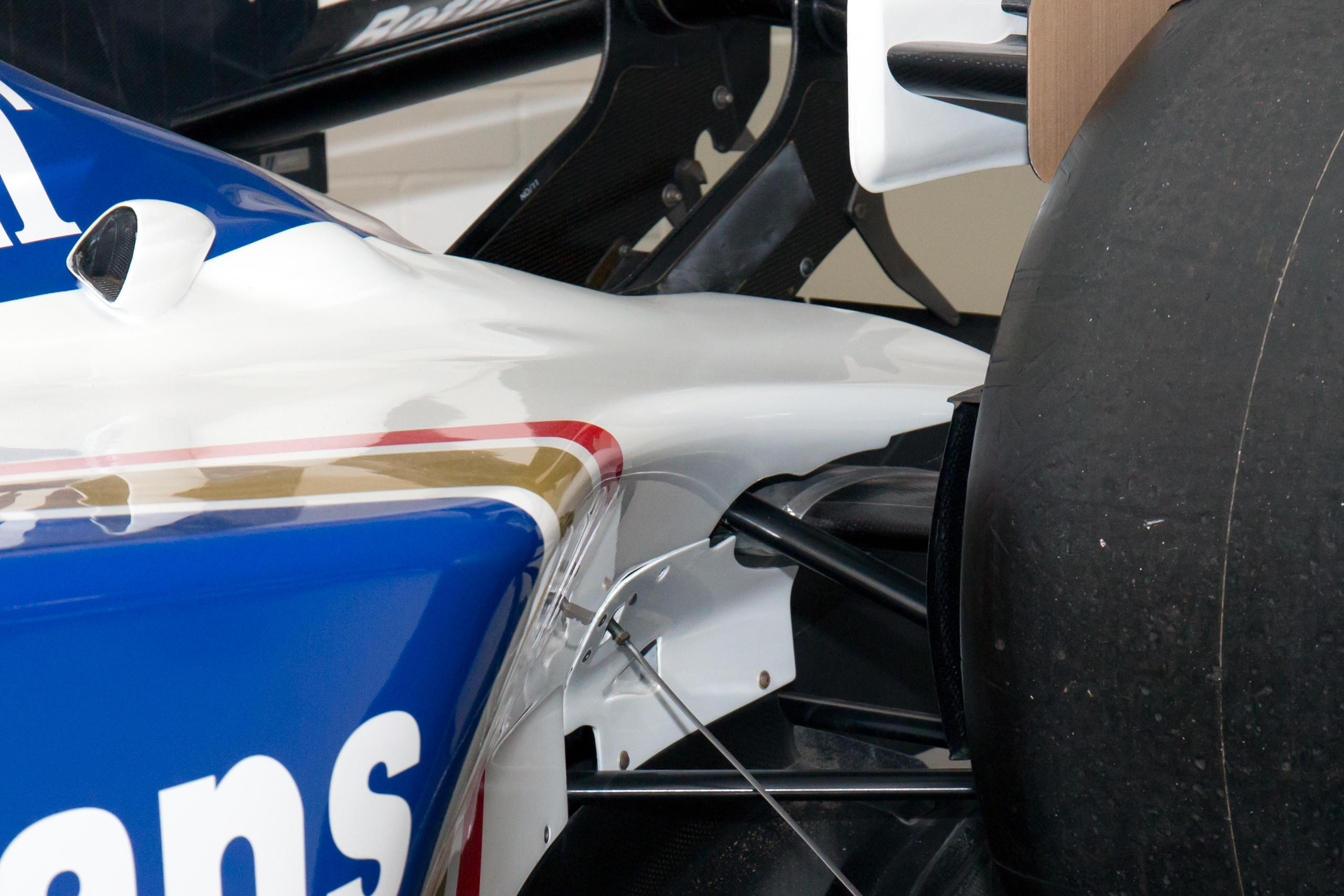 1994 Williams FW16B (#0 Damon Hill); rear suspension and enclosed driveshaft